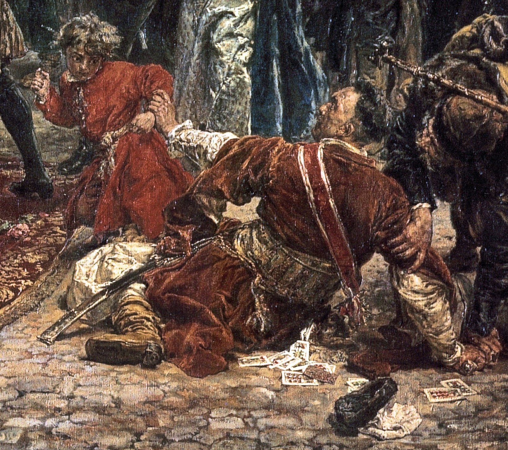 Jan Suchorzewski, part of Matejko's painting (File:Konstytucja 3 Maja.jpg)